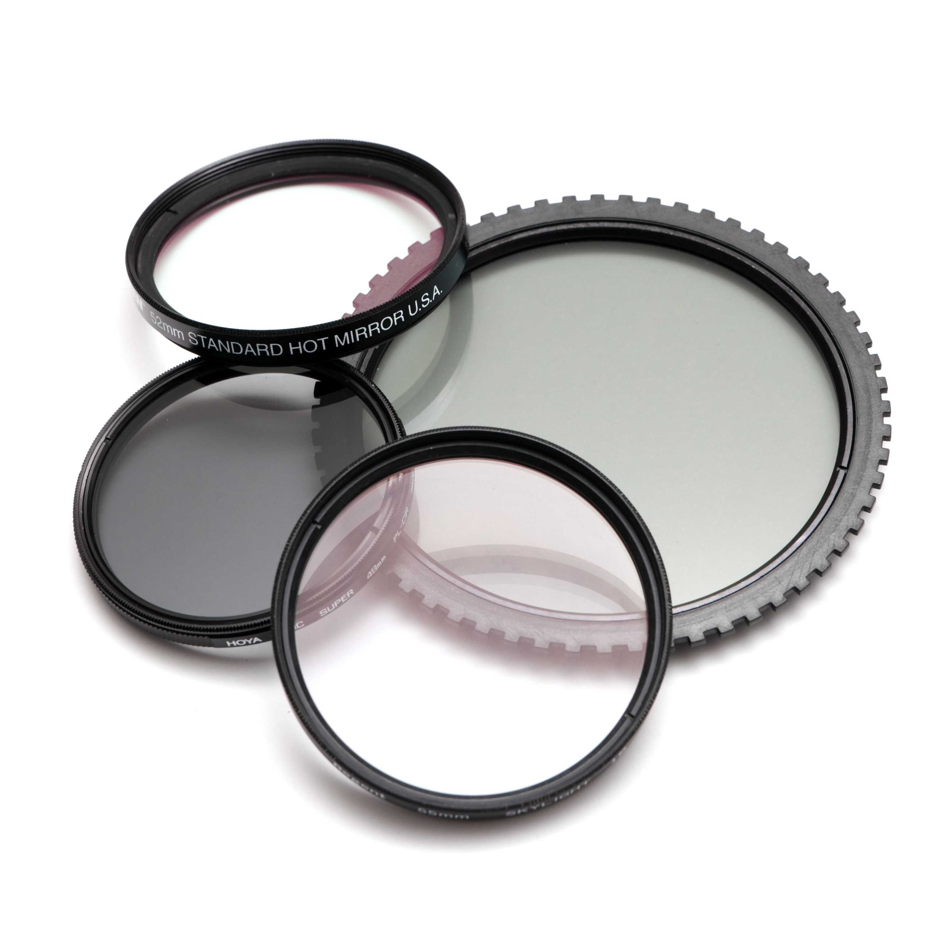 Four photographic filters; clockwise from top left, infrared hot mirror filter, polarising, UV, and a Cokin-style polarising filter.